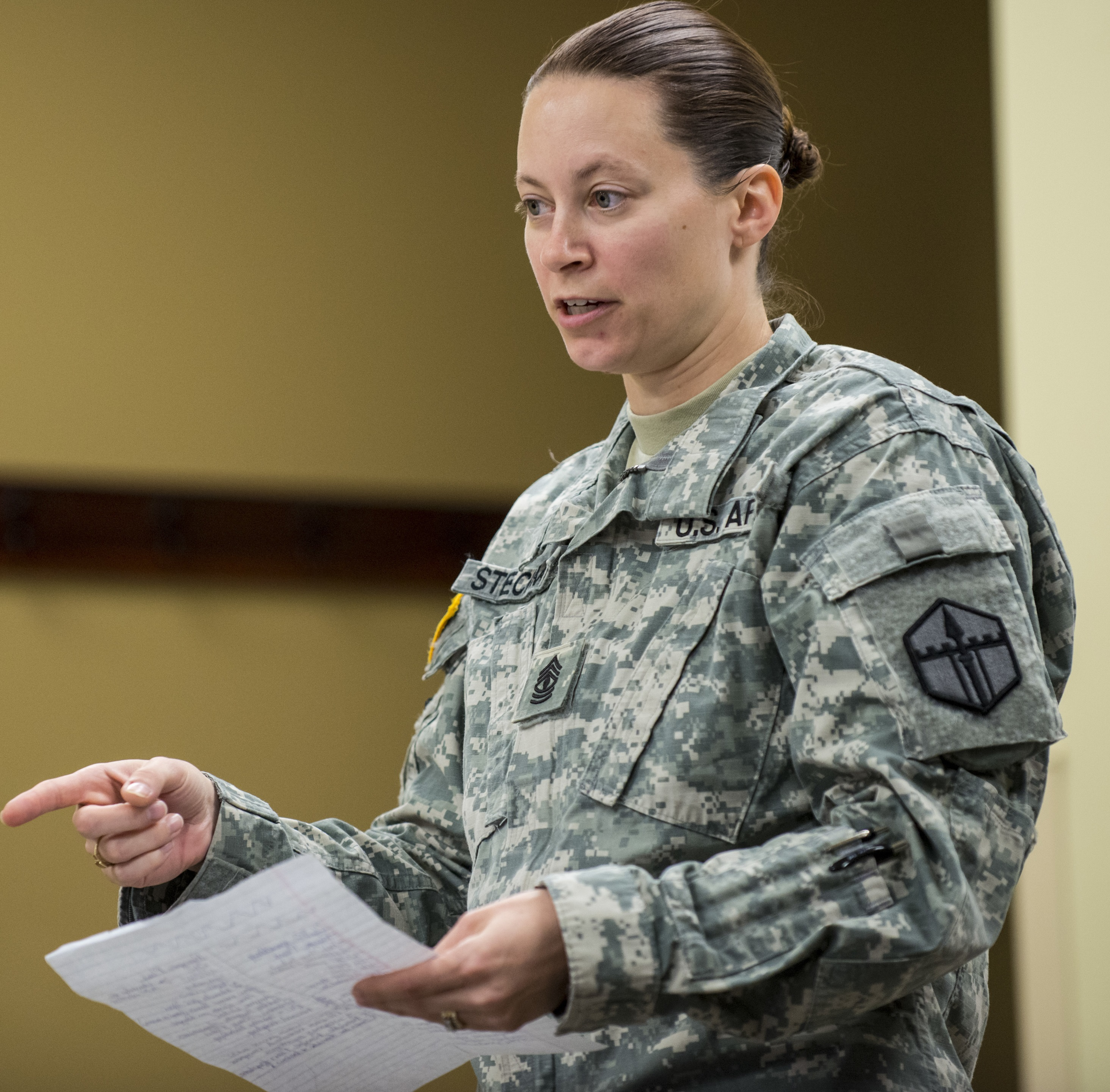 First Sgt. Raquel Steckman is the first woman in the Army appointed to a combat engineer company as a first sergeant, now with the 374th Engineer Company (Sapper), headquartered in Concord, Calif. (U.S. Army photo by Sgt. 1st Class Michel Sauret)